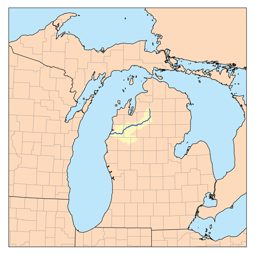 Map of the Manistee River watershed.